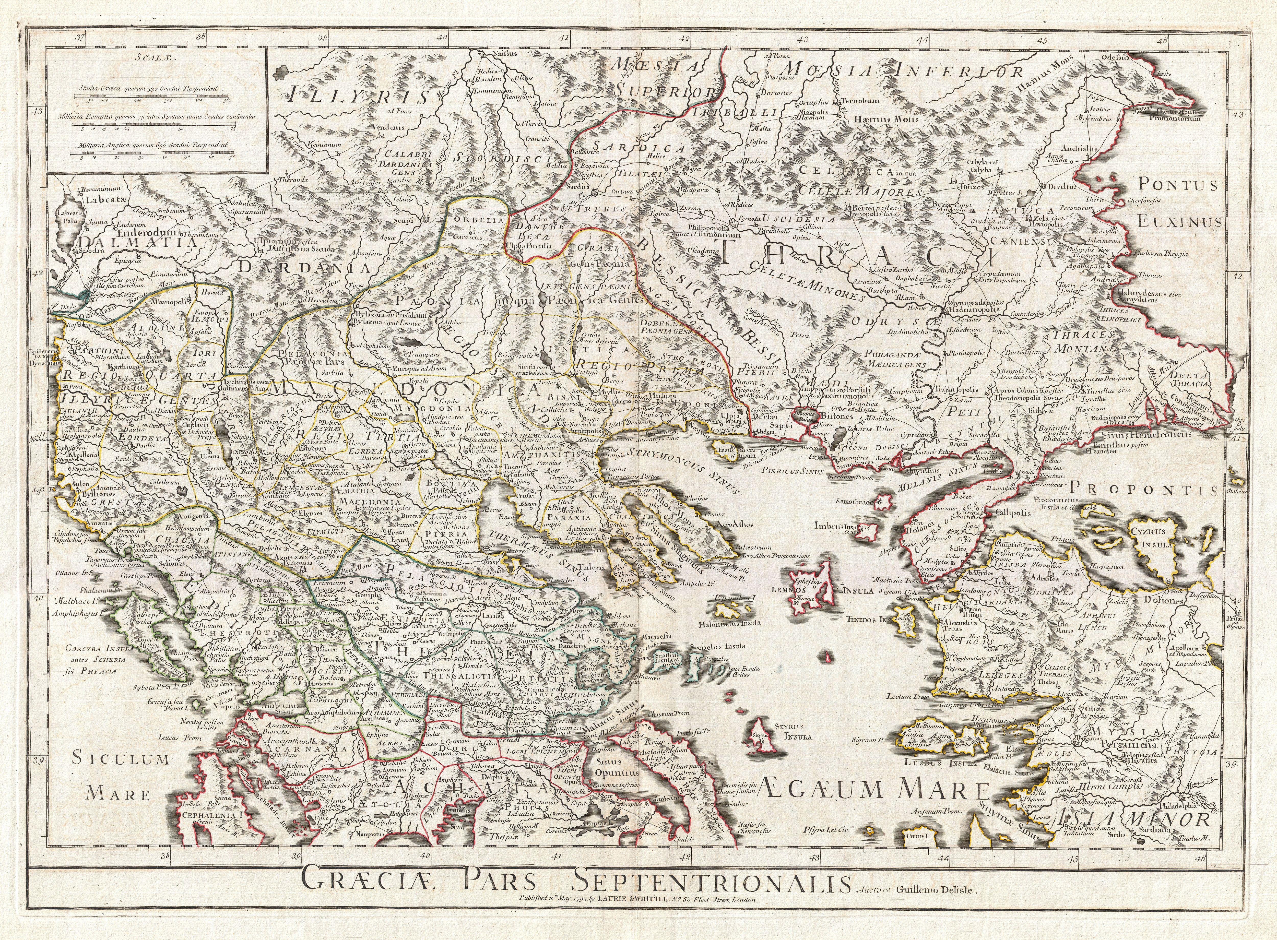 A large and dramatic Delisle map of the northern Greece, the Balkans, and Macedonia. Covers from Dalmatia east to the Black Sea (Pontus Euxinus) and south as far as Achaia, Cyprus, and Asia Minor. Includes much of the Aegean Sea and parts of the Adriatic Sea. Identifies various important locals from antiquity including the Hellespont, Byzantium (Constantinople or Istanbul), Troy, Macedonia, etc. Details mountains, rivers, cities, roadways, and lakes with political divisions highlighted in outline color. Title area below map proper. Includes three distance scales, top left, referencing various measurement systems common in antiquity. Text in Latin. Drawn by G. Delisle and published in 1794 by Laurie and Whittle, London.